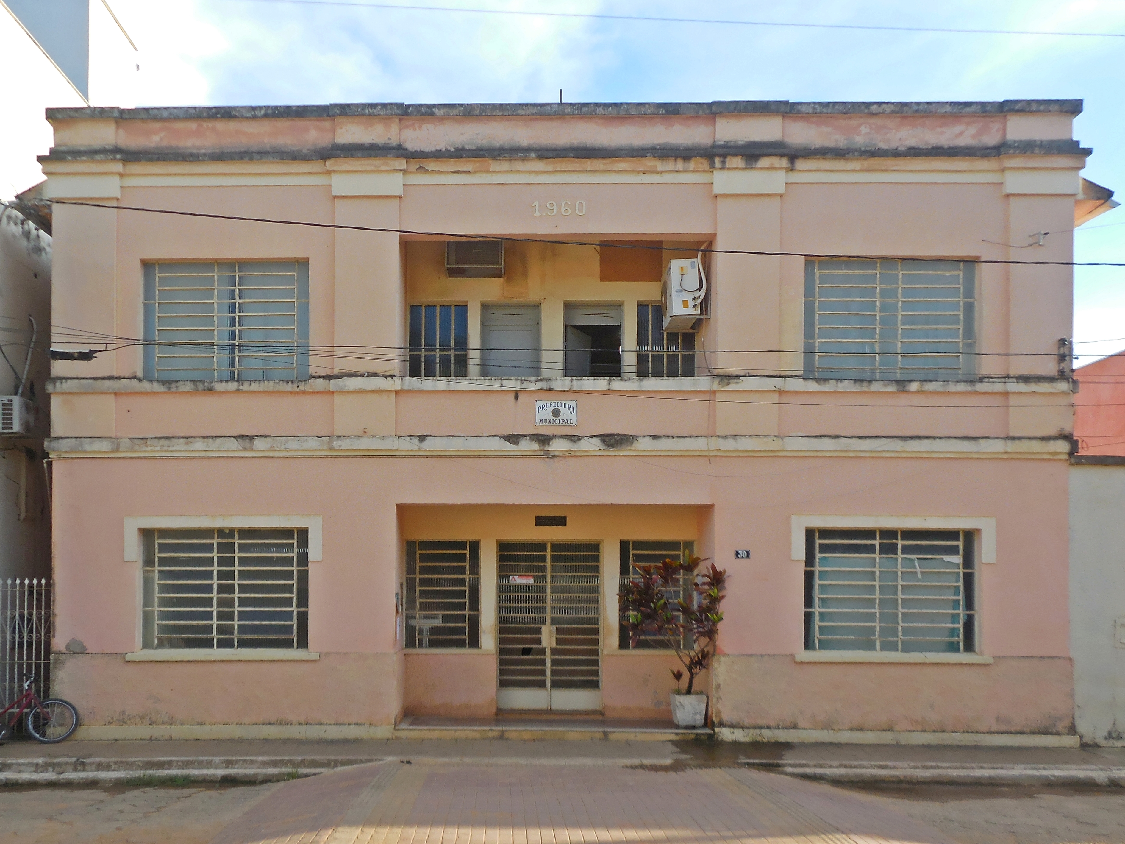 Town hall of São José do Goiabal, Minas Gerais, Brazil.